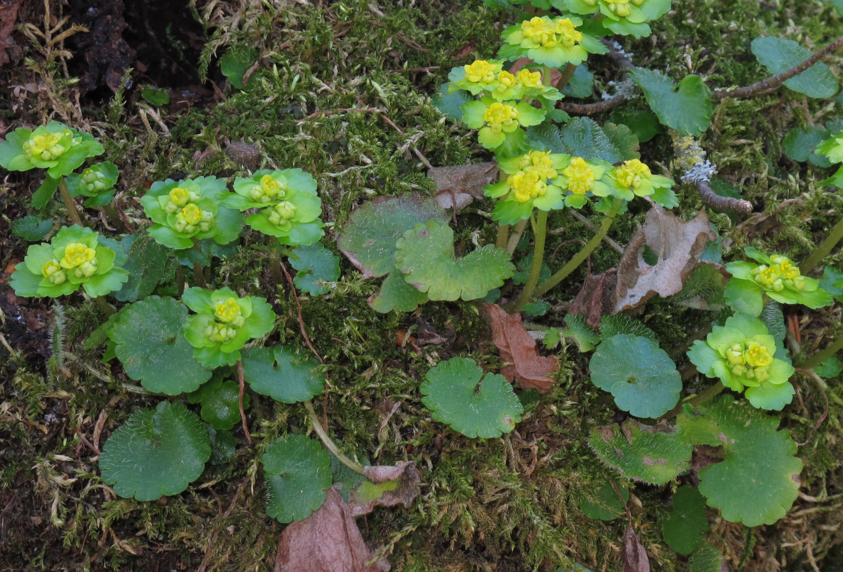 Alternate-leaved golden-saxifrage (Chrysosplenium alternifolium), Erdtal near Strohweiler, Germany